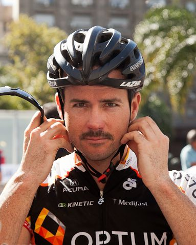 Ken Hanson, rider of Team Optum in the Vuelta Ciclista del Uruguay 2012